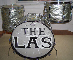 The Ludwig drum set used by Neil Mavers during his time in The La's. Picture taken sometime late 2006, Merseyside, UK. The kit displays a homemade logo for the band, including their trademark 'musical note' apostrophe.